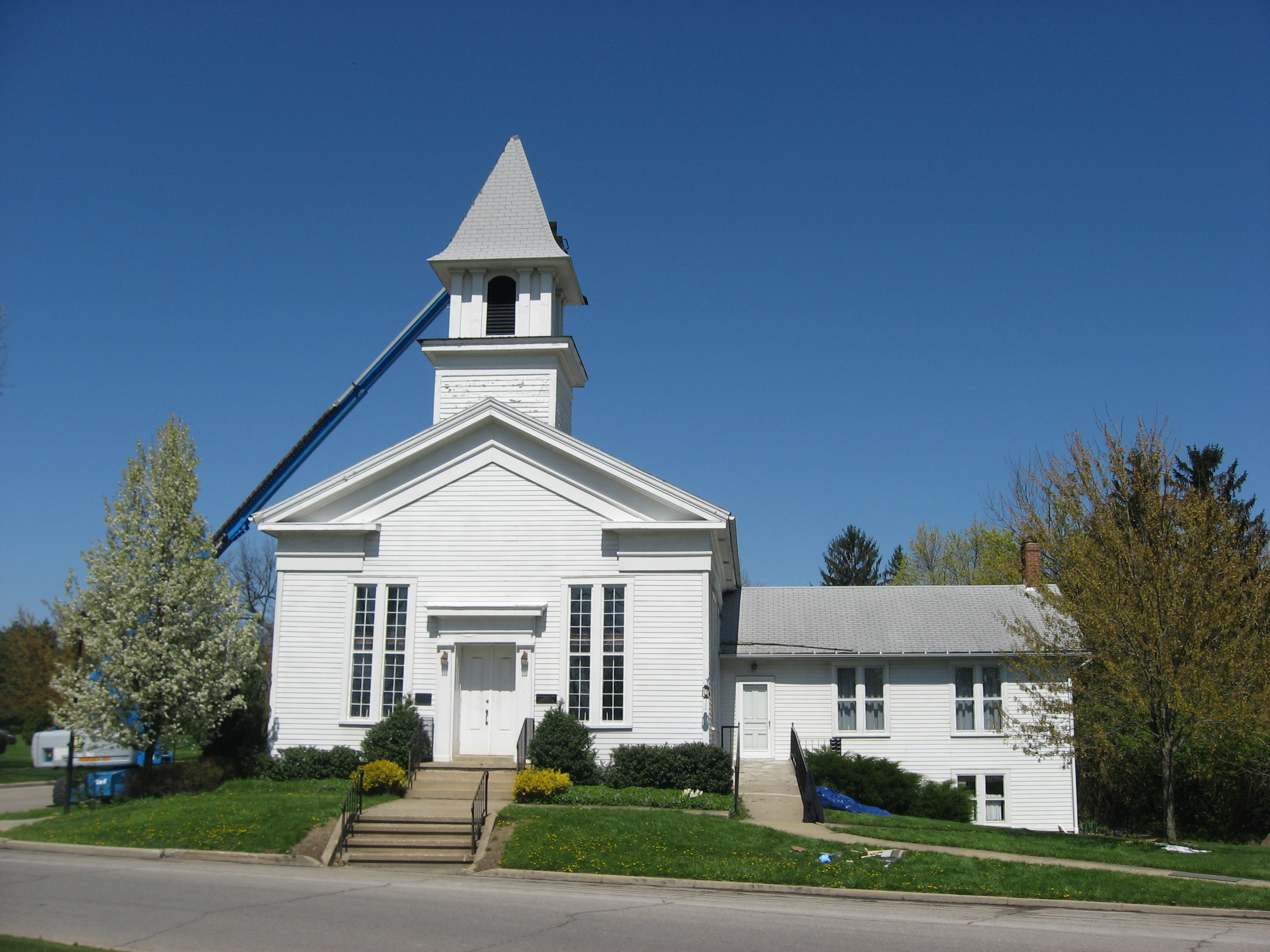 Front of the Universalist Church of Westfield Center, located at 6765 Park Circle on the village green in Westfield Center, Ohio, United States. Built in 1849, it is listed on the National Register of Historic Places.